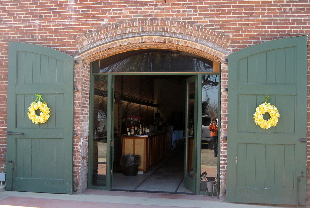 Entrance to the tasting room at New Clairvaux Abbey in Vina, California.